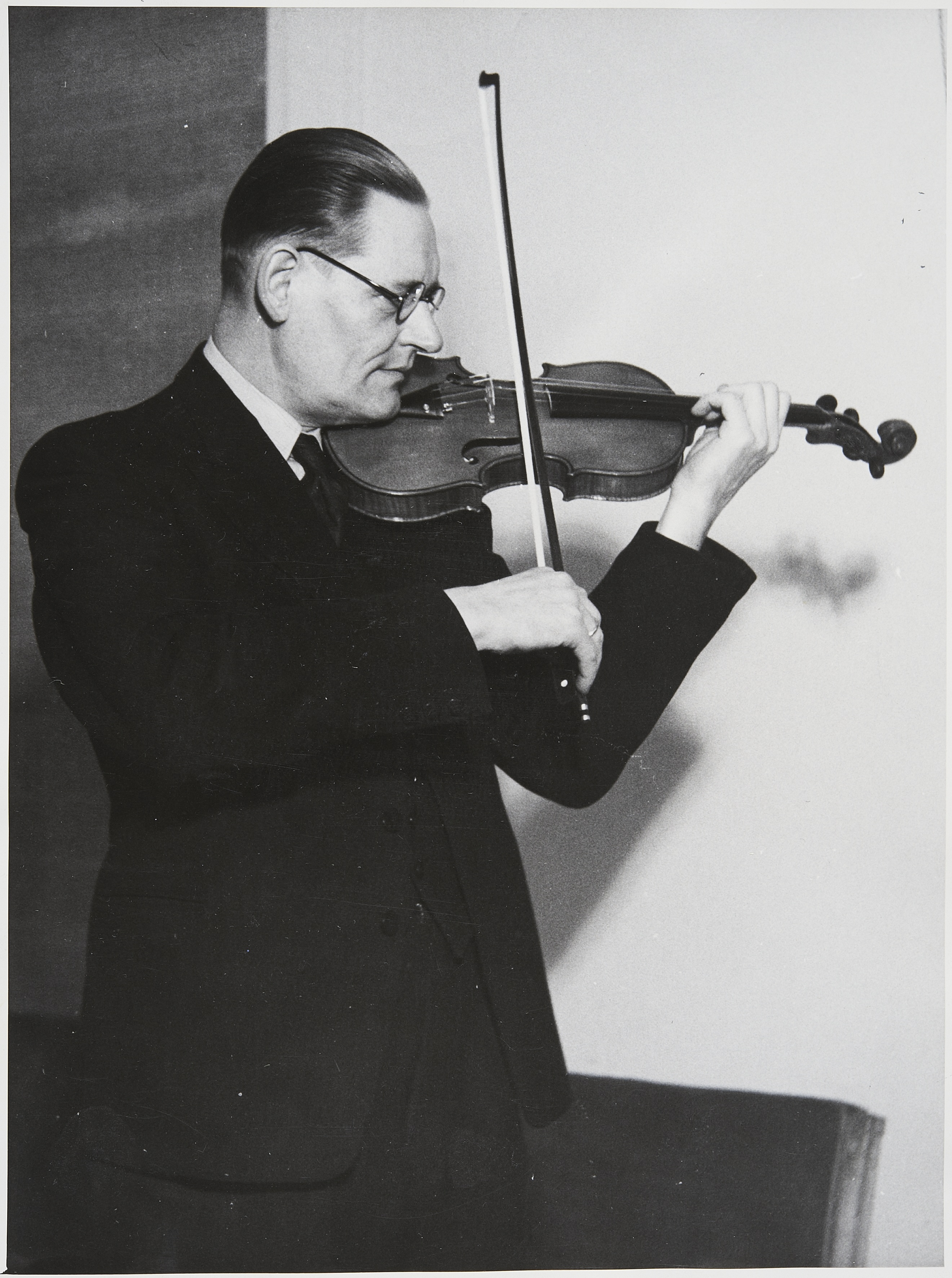 Violinist Hugo Huttunen in 1930